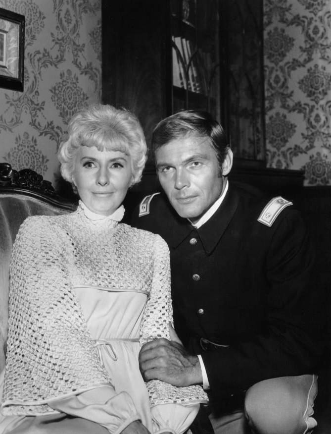 Photo of Barbara Stanwyck as Victoria Barkley and guest star Adam West as Major Jonathan Elliot from the television program The Big Valley. The episode is "In Silent Battle".